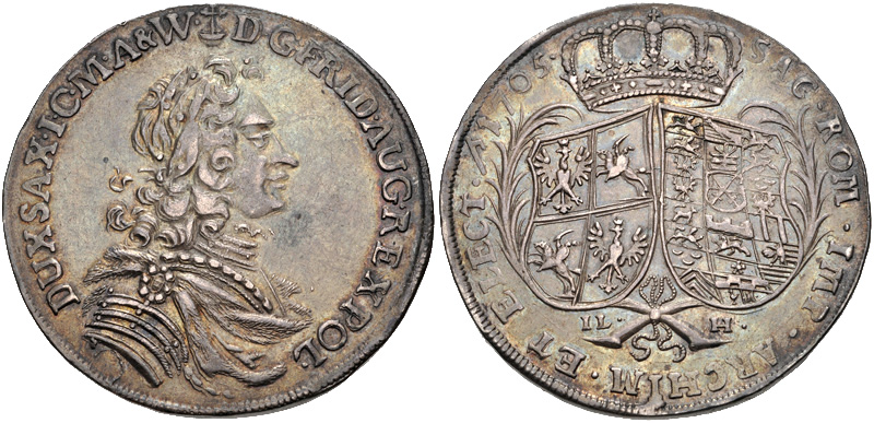 GERMANY, Sachsen-Albertinische Linie (Kurfürstentum). Friedrich August I (August II von Polen). 1694-1733. AR Reichstaler (44mm, 28.90 g, 9h). Dresden mint. Dated 1705. Laureate, draped, and armored bust right / Crowned coats-of-arms within wreath. Davenport 2647. Good VF, toned.